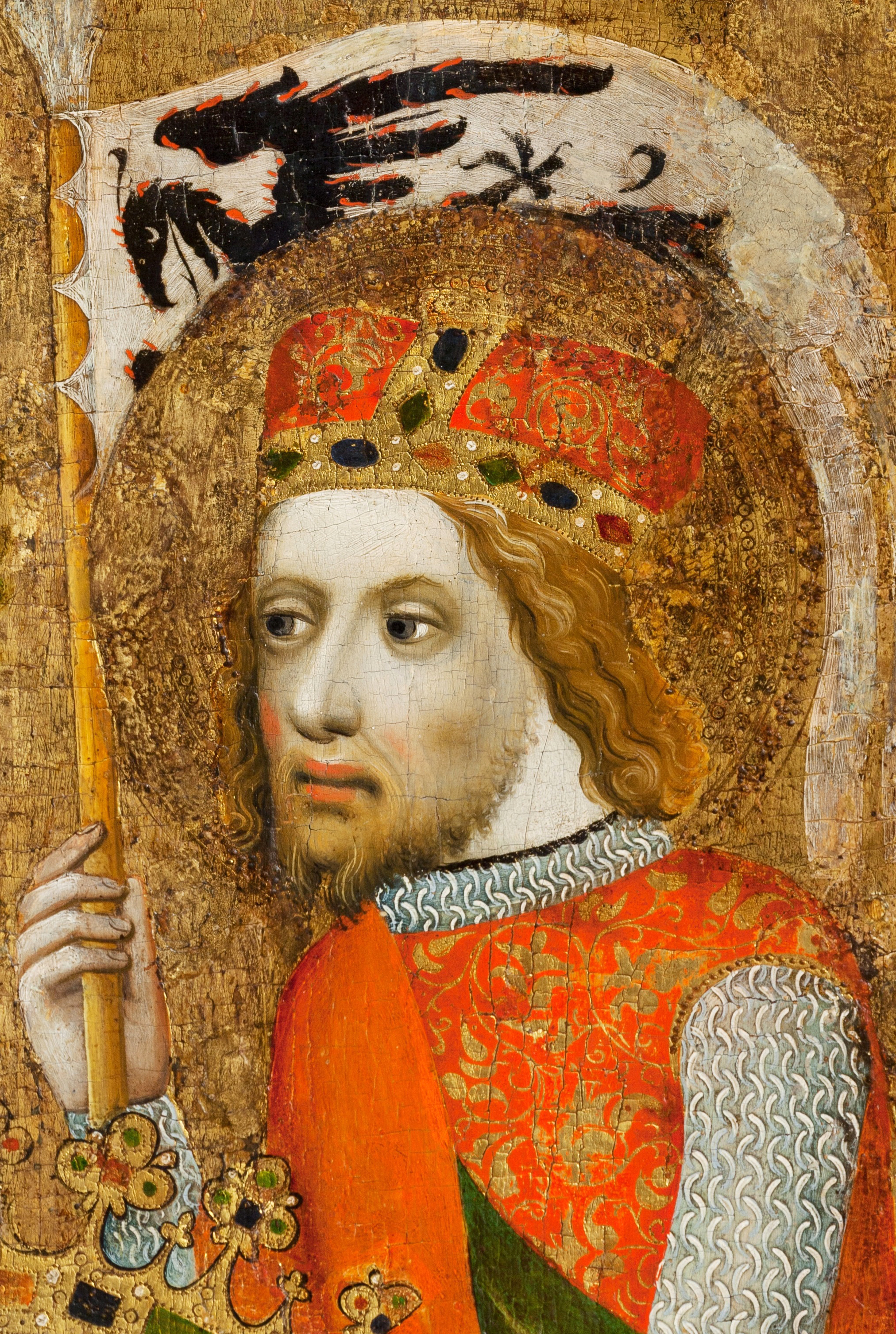 Saint Wencelaus from the Votive Painting of Archbishop Jan Očko of Vlašim.